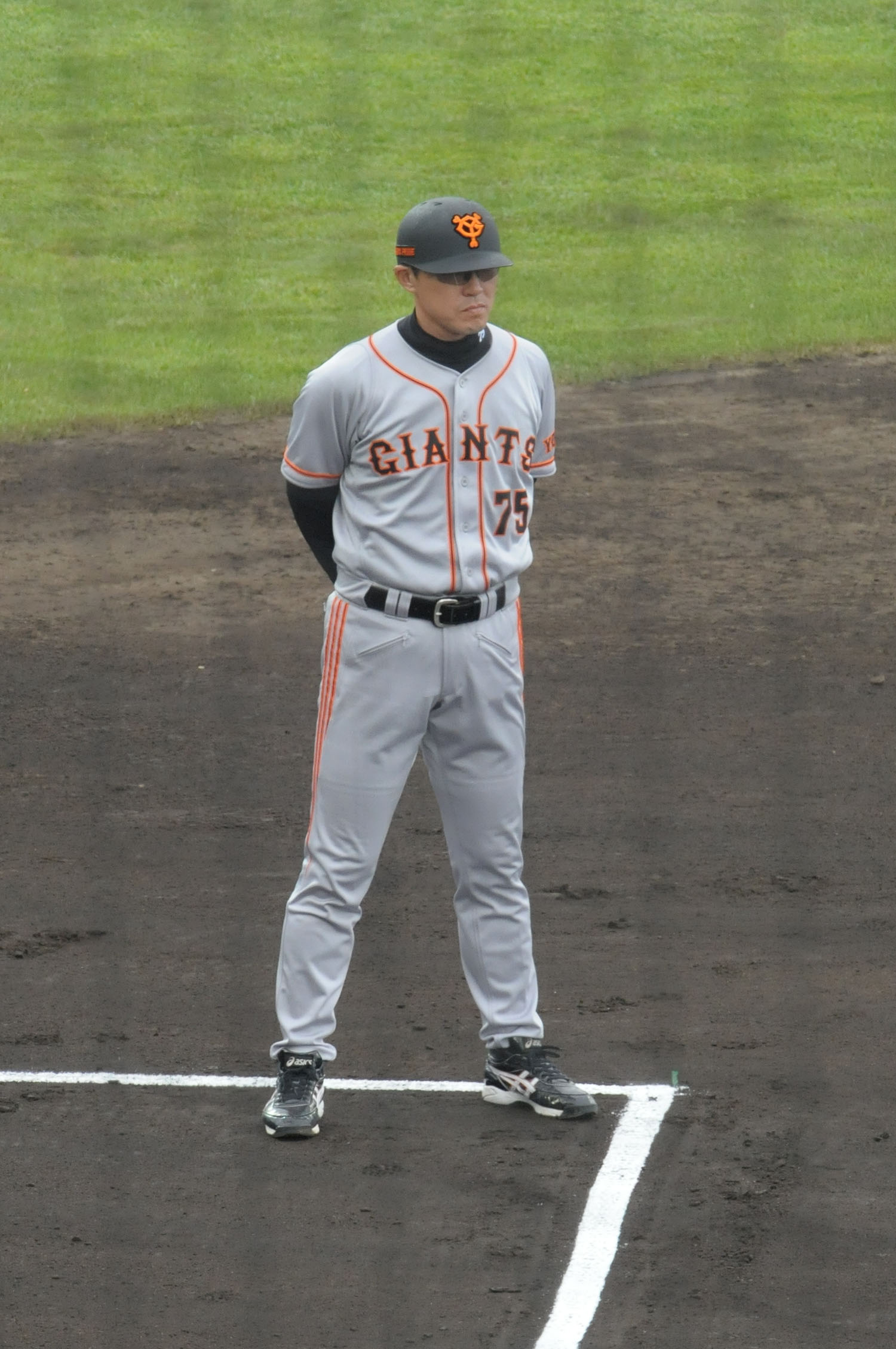 Hironori Suguro, coach of the Yomiuri Giants, at Akita Prefectural Baseball Stadium.